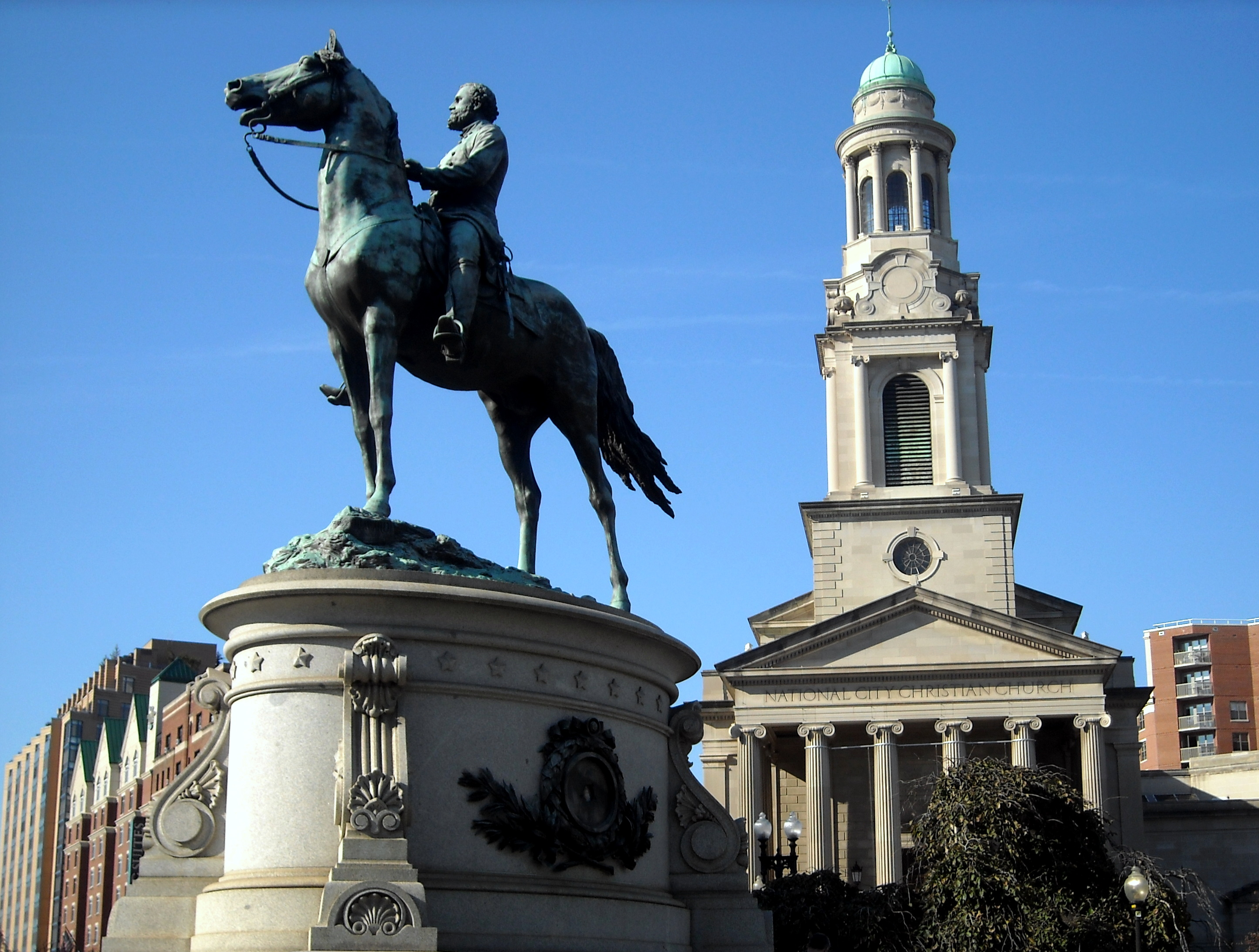 The statue of General George Henry Thomas, a prominent commander during the American Civil War, and the National City Christian Church, the "national cathedral" for the Christian Church (Disciples of Christ) denomination, located on Thomas Circle, in the Logan Circle neighborhood of Washington, D.C. The statue and church are contributing properties to the Fourteenth Street Historic District. The bronze equestrian statue of George Henry Thomas was sculpted by John Quincy Adams Ward, and dedicated on November 19, 1879. The statue is one of seventeen Civil War monuments in Washington, D.C., that were collectively listed on the National Register of Historic Places on September 20, 1978. The statuary was also designated a D.C. Historic Landmark on March 3, 1979. Built in 1930, the National City Christian Church was designed in the neoclassical style by noted architect John Russell Pope. The church was designated a D.C. Historic Landmark on November 8, 1964.